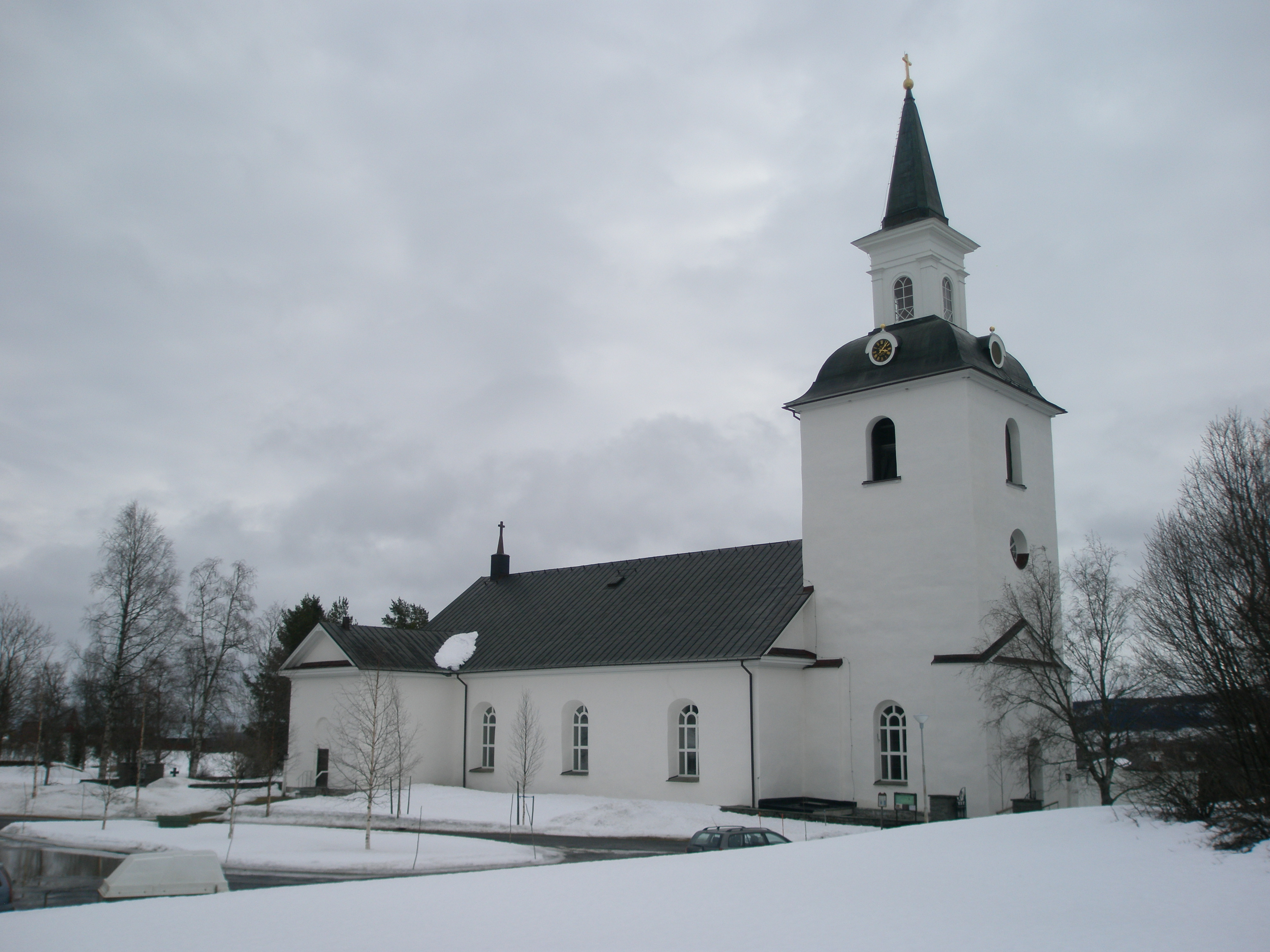 The church of Offerdal, Krokom, Jämtland, Sweden.